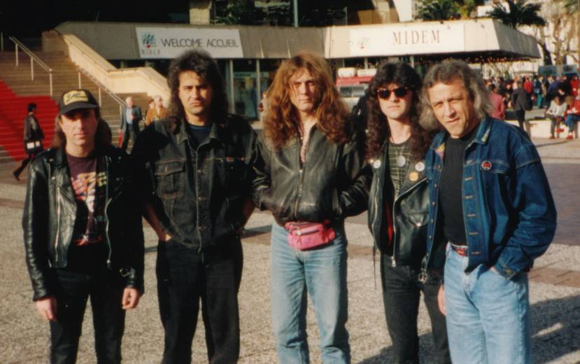 The Romanian rock band Iris in 1993 at Cannes, France. From left to right: Valter Popa, Cristian Minculescu, Dan Alex Sârbu, Doru 'Boro' Borobeică, Nelu Dumitrescu.